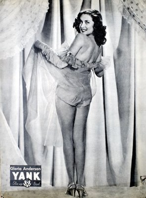 Pin-up photo of Gloria Anderson for the March 31, 1944 issue of Yank, the Army Weekly, a weekly U.S. Army magazine fully staffed by enlisted men.